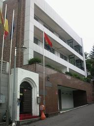 Embassy of Angola in Seoul